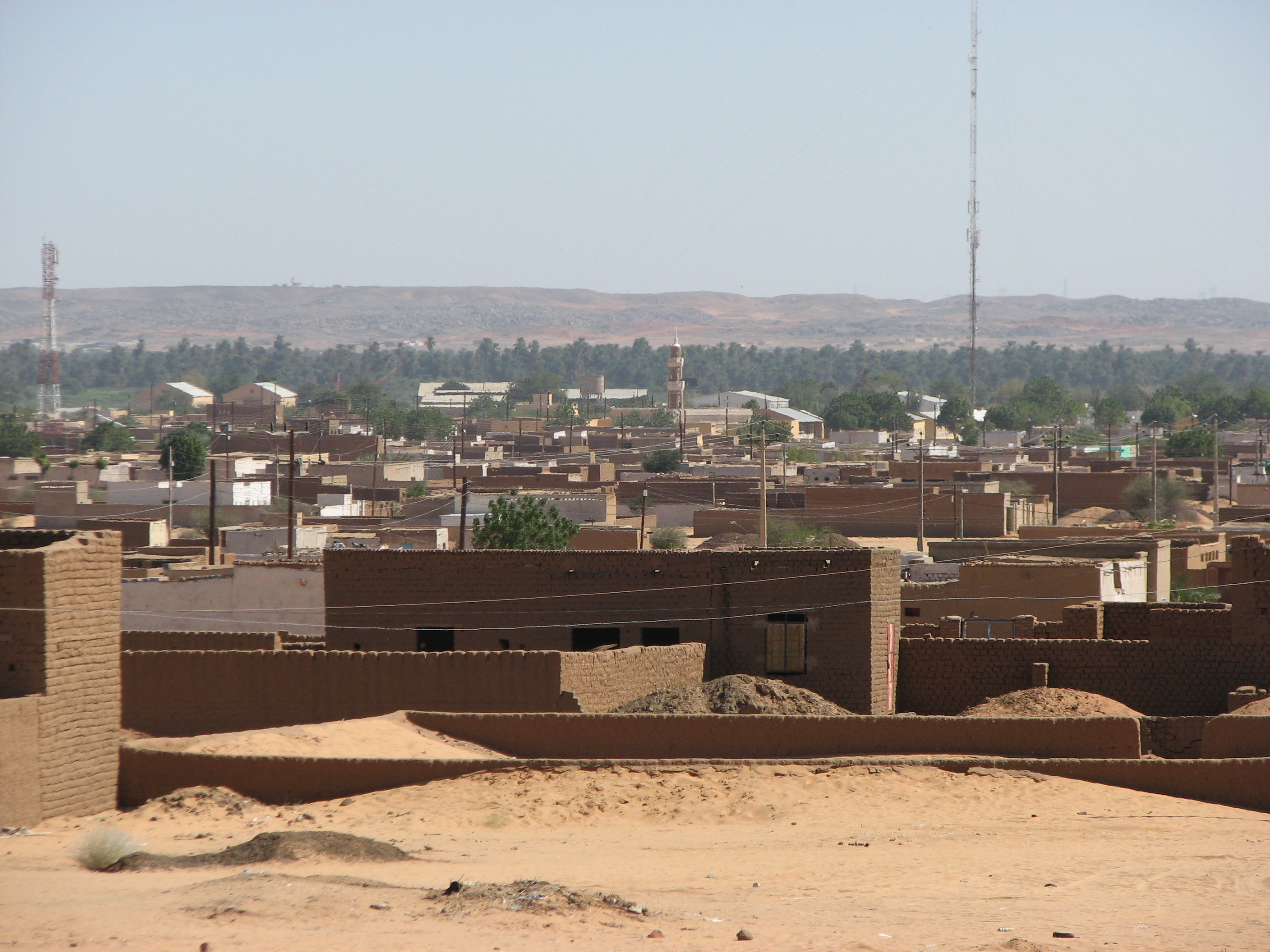 Kareema city